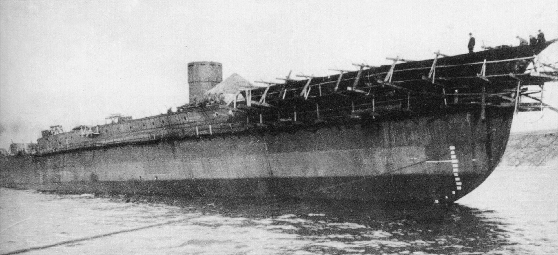 The Soviet cruiser Krasnyi Kavkaz, 9 September 1930.